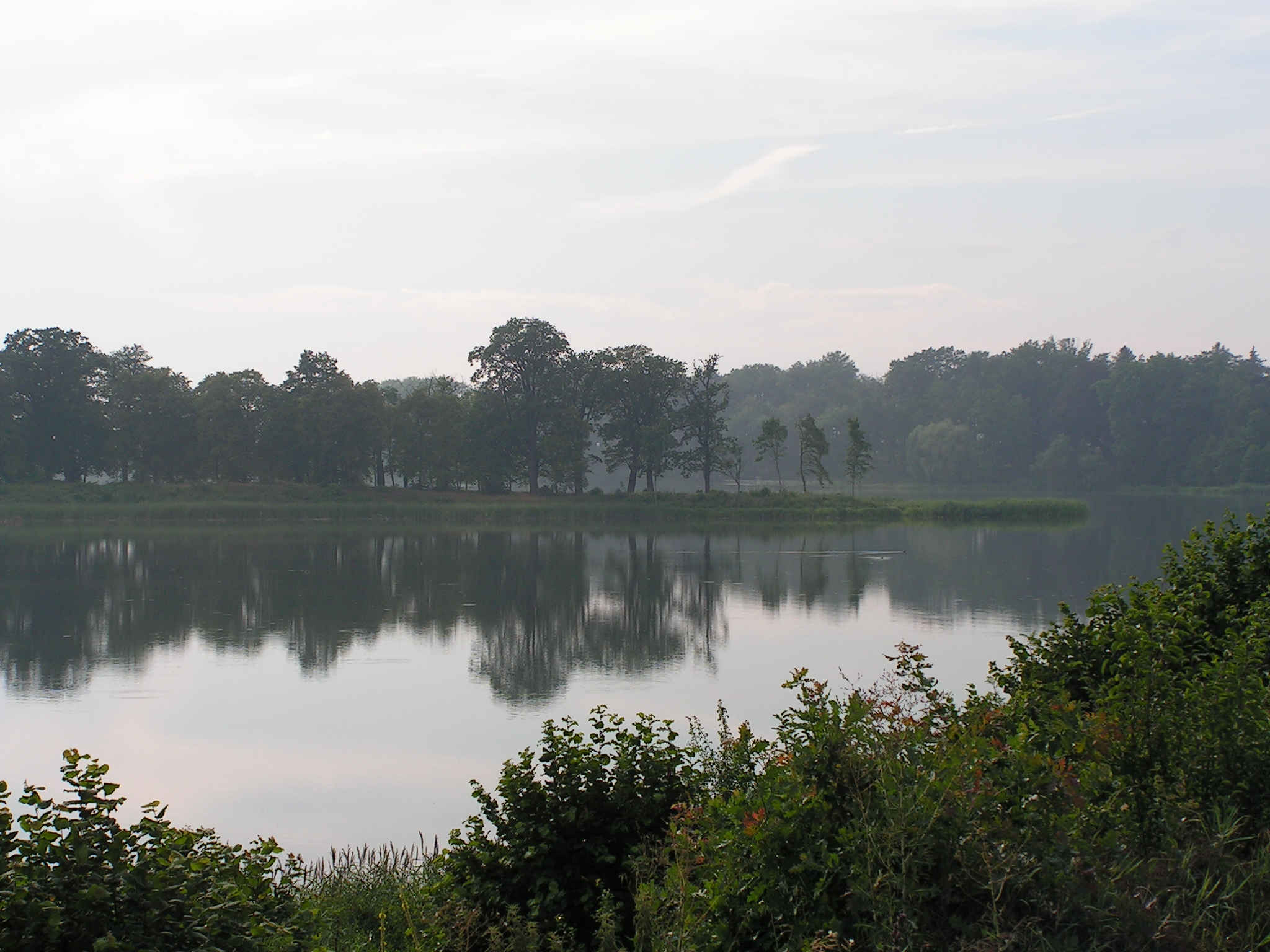 Lake Lubstów